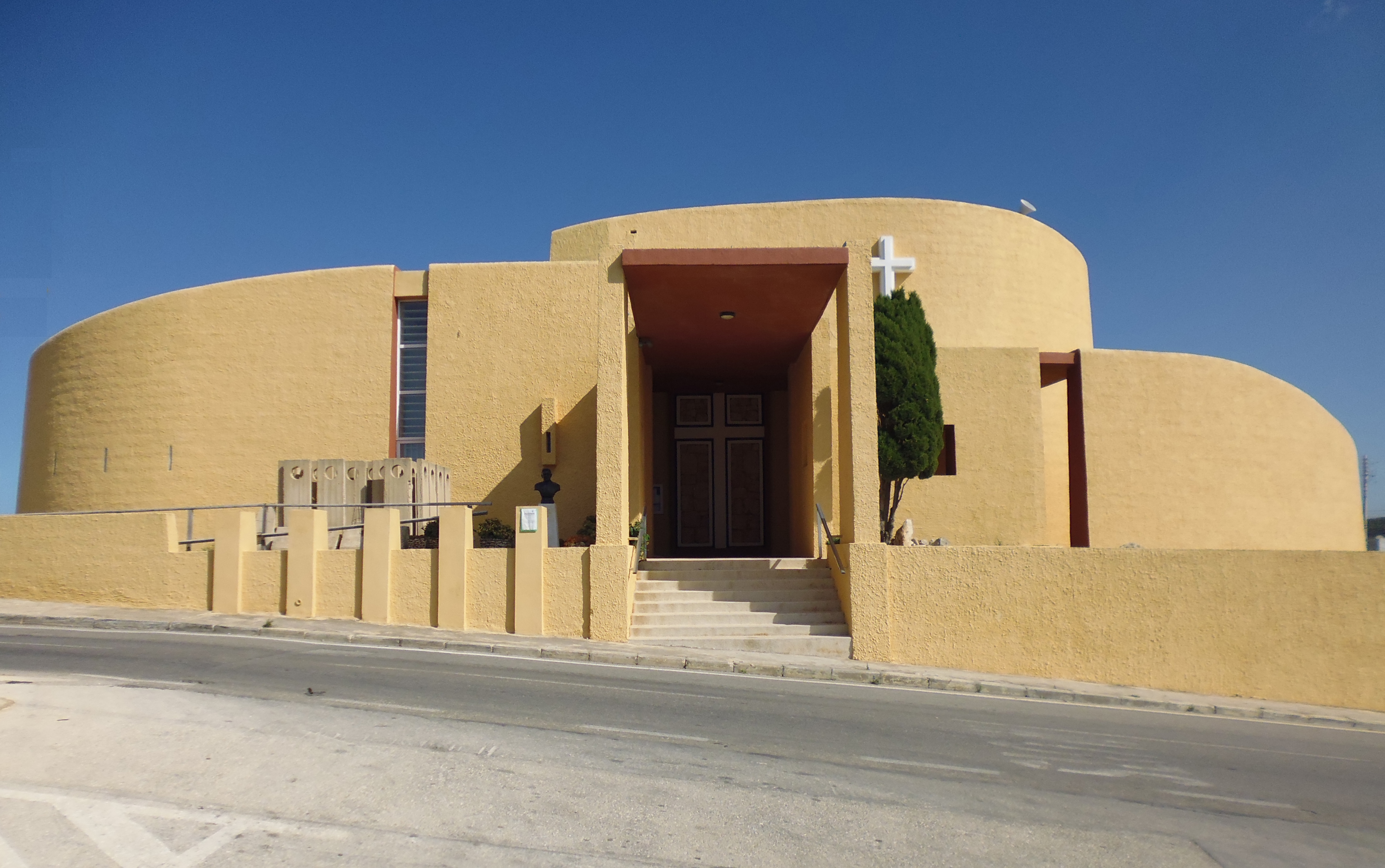 Manikata church